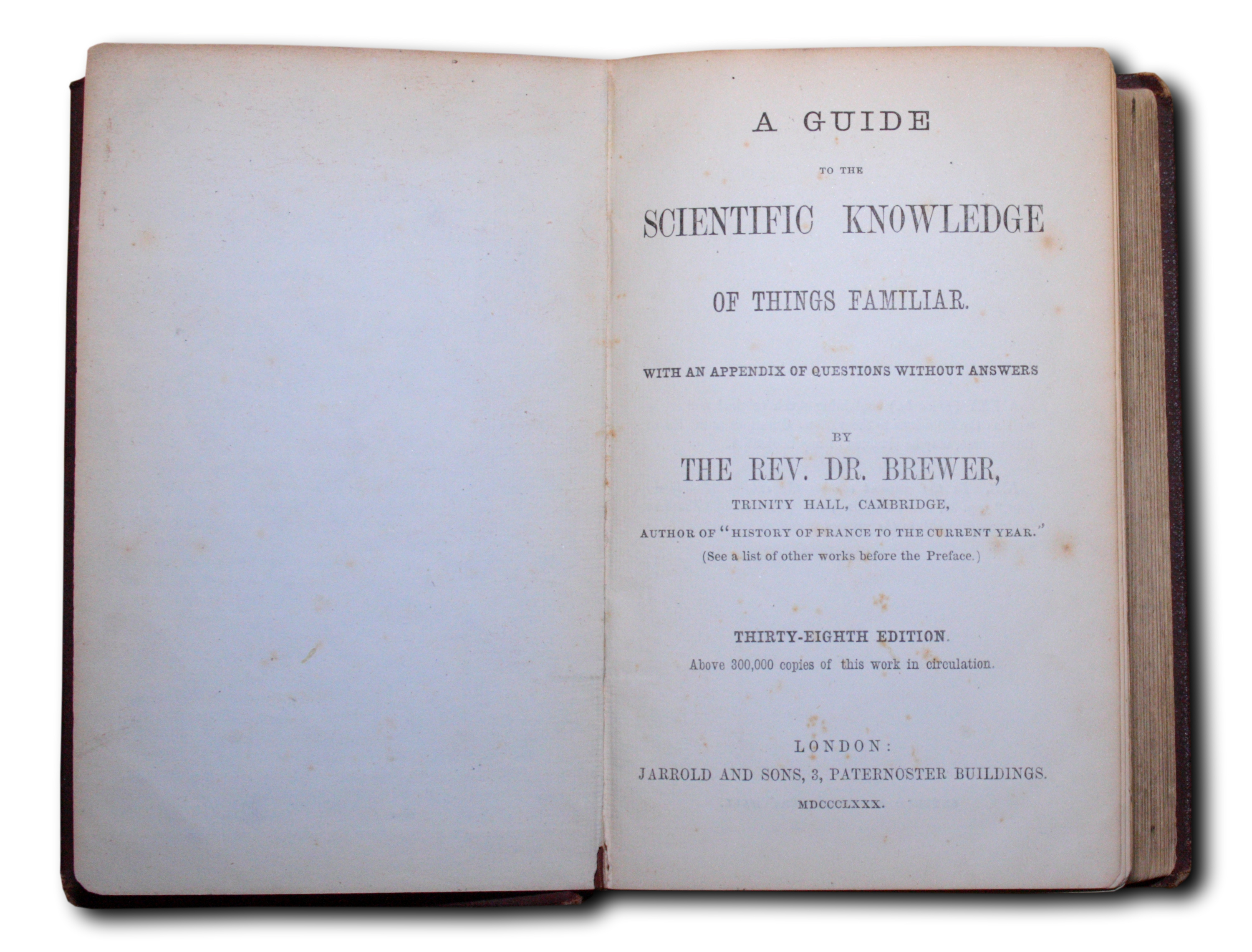 Title page of A Guide to the Scientific Knowledge of Things Familiar by Ebenezer Cobham Brewer, also known as Dr Brewer's Guide to Science. This is the 38th edition published in 1880.